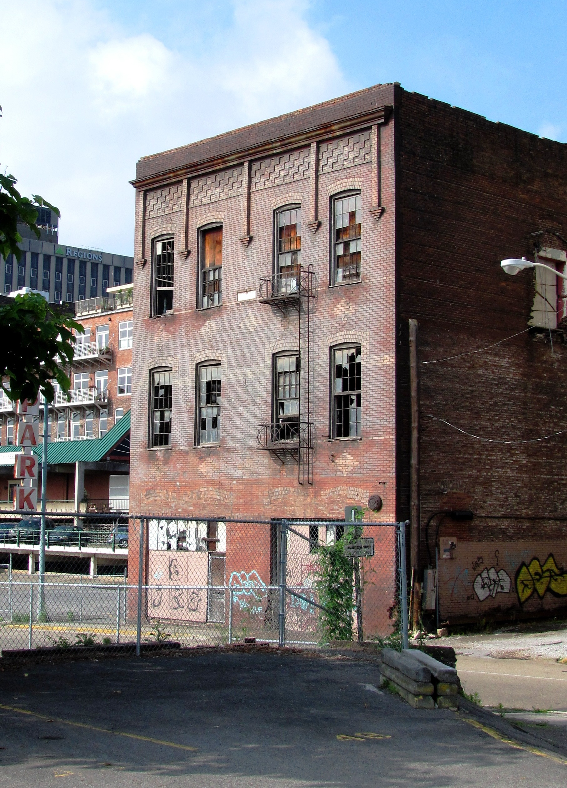 The Cal Johnson Building (301 State Street) in Knoxville, Tennessee, USA. Built in 1898 by prominent African-American businessman Cal Johnson (1844–1925), this building is now listed as a contributing building in the Gay Street Commercial Historic District.